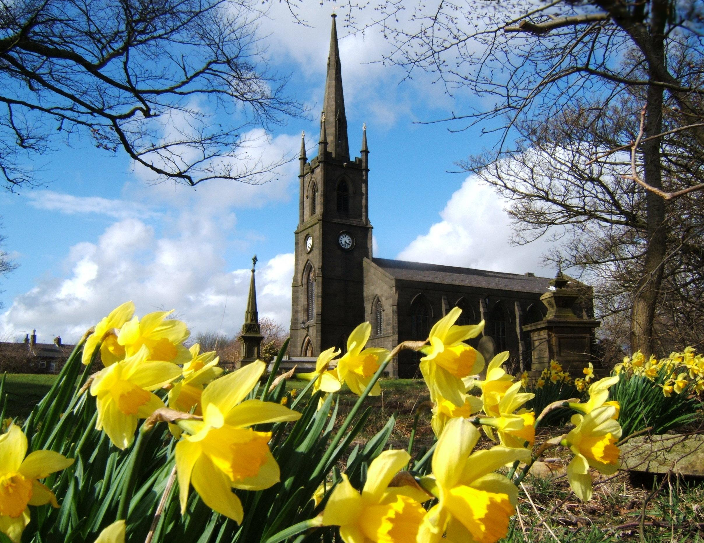 Saint Anne's Church, Chapeltown, Turton, Lancashire. Foreground of daffodils.